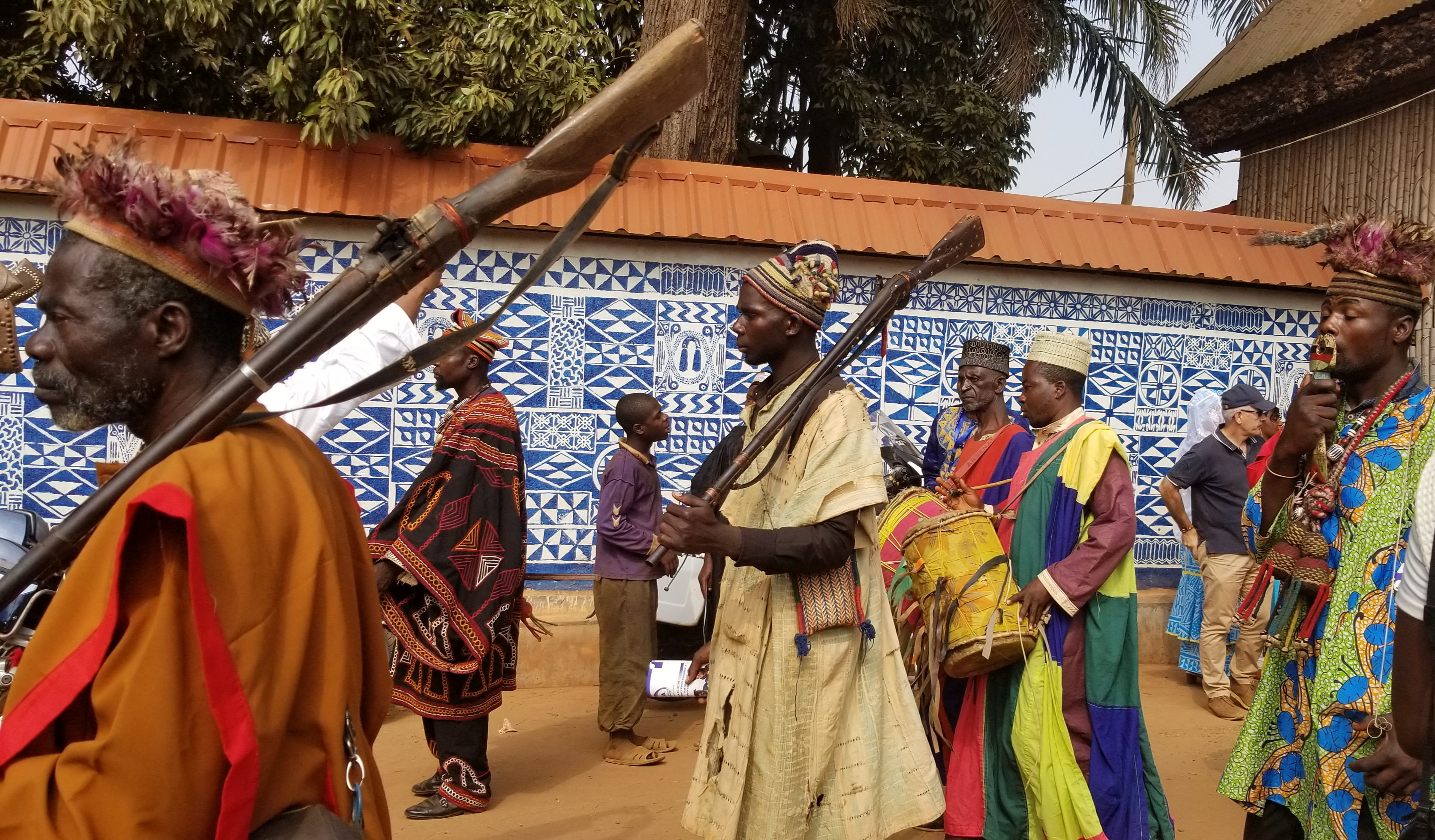 March with Sultan in Foumban, Cameroon This is an image with the theme "Play" from: Cameroon